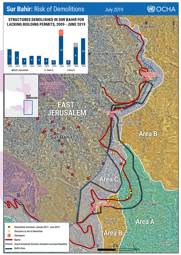 Shows Sur Baher and its parts within Jerusalem municipal boders, Areas A, B and C and West Bank barrier